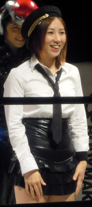 Japanese professional wrestler,Fuka.May 8 2011 STARDOM Shin-Kiba 1st Ring.